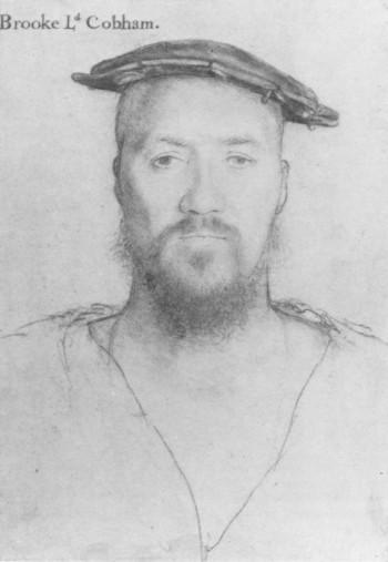 Portrait of Henry Cobham, 11th Baron Cobham